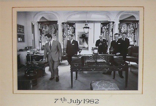 HRH the Prince of Wales visiting Mallett on 7th July 1982.